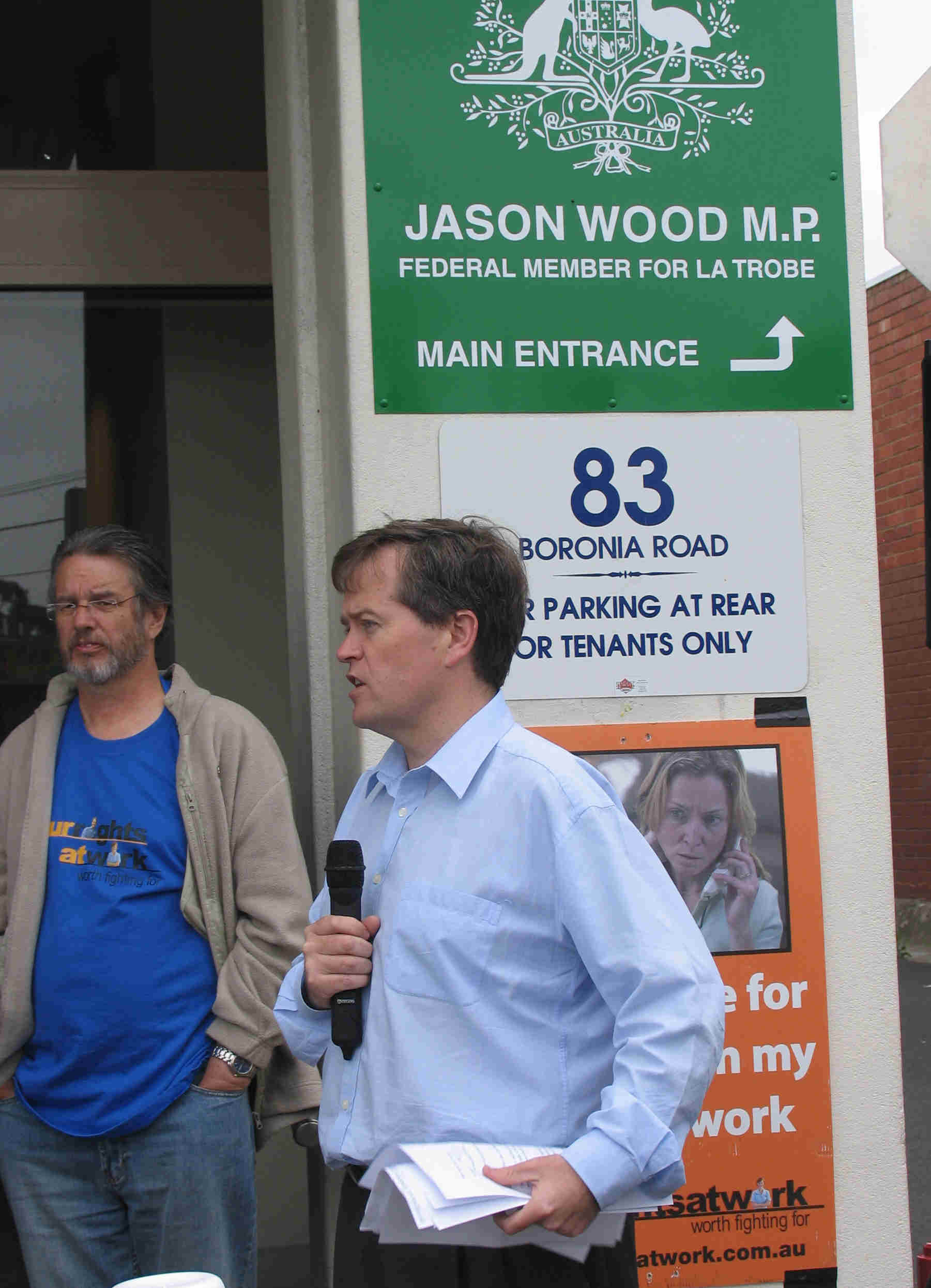 Bill Shorten outside Jason Wood's Boronia electoral office during the Dec'1st anti-WorkChoices rally. [1].